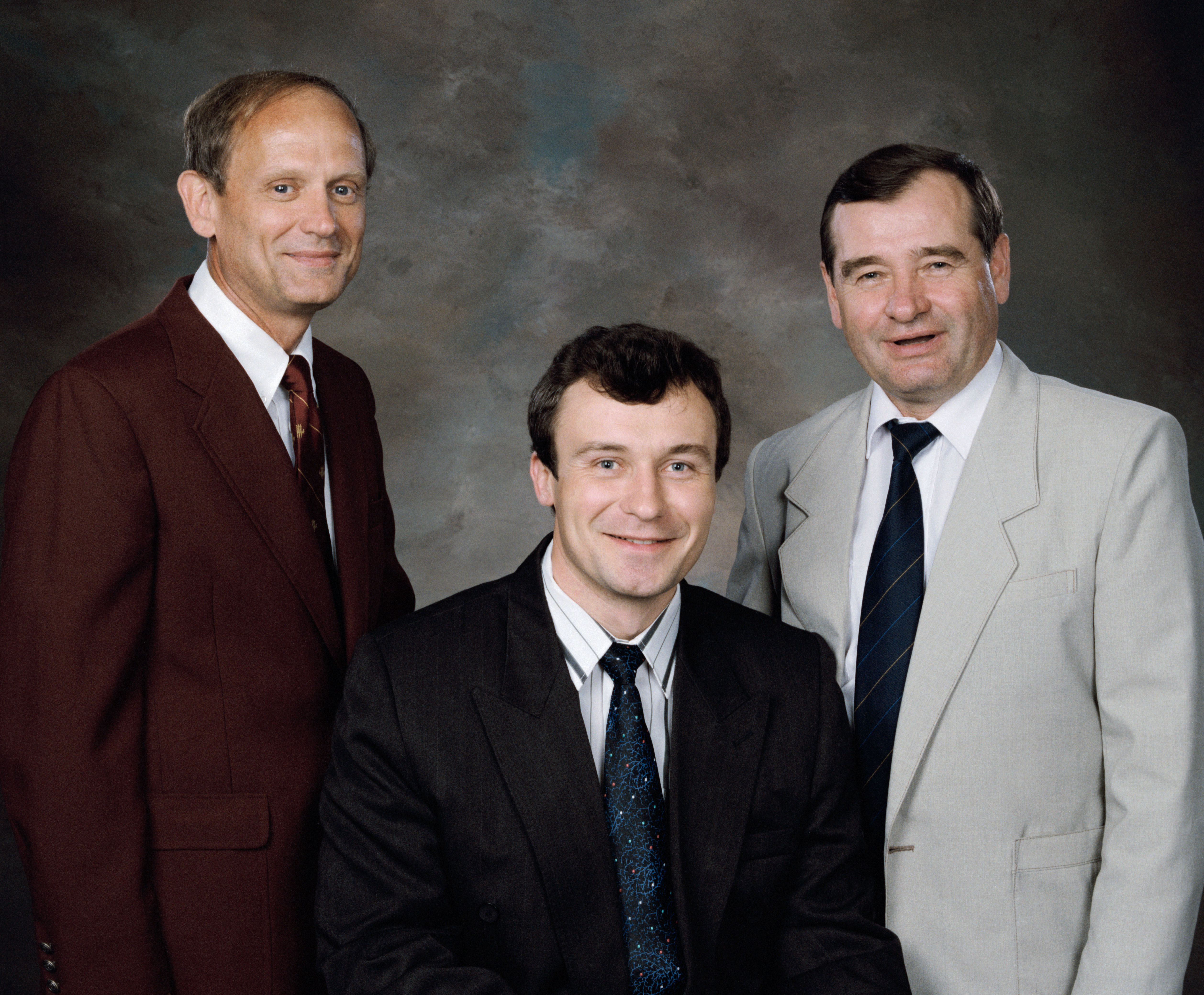 The official crew portrait for Soyuz TM-21 – from left to right: Norman Thagard, Vladimir Dezhurov, Gennady Strekalov.